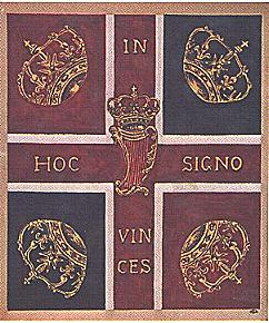 The flag of Dillon's Regiment, Irish Brigade of France.